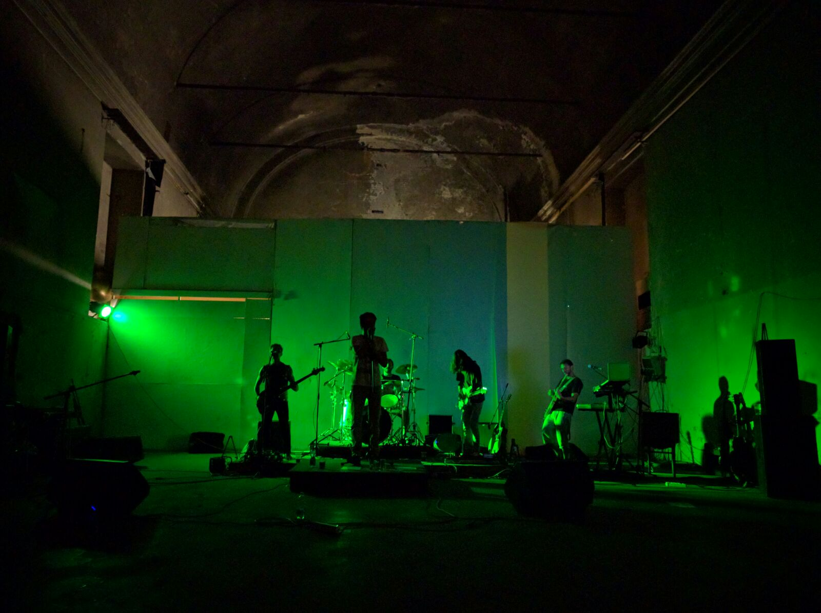 Posidonia performing at Cavallerizza Reale - Torino - 2016